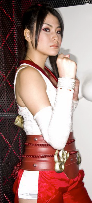 Cropped from the original.